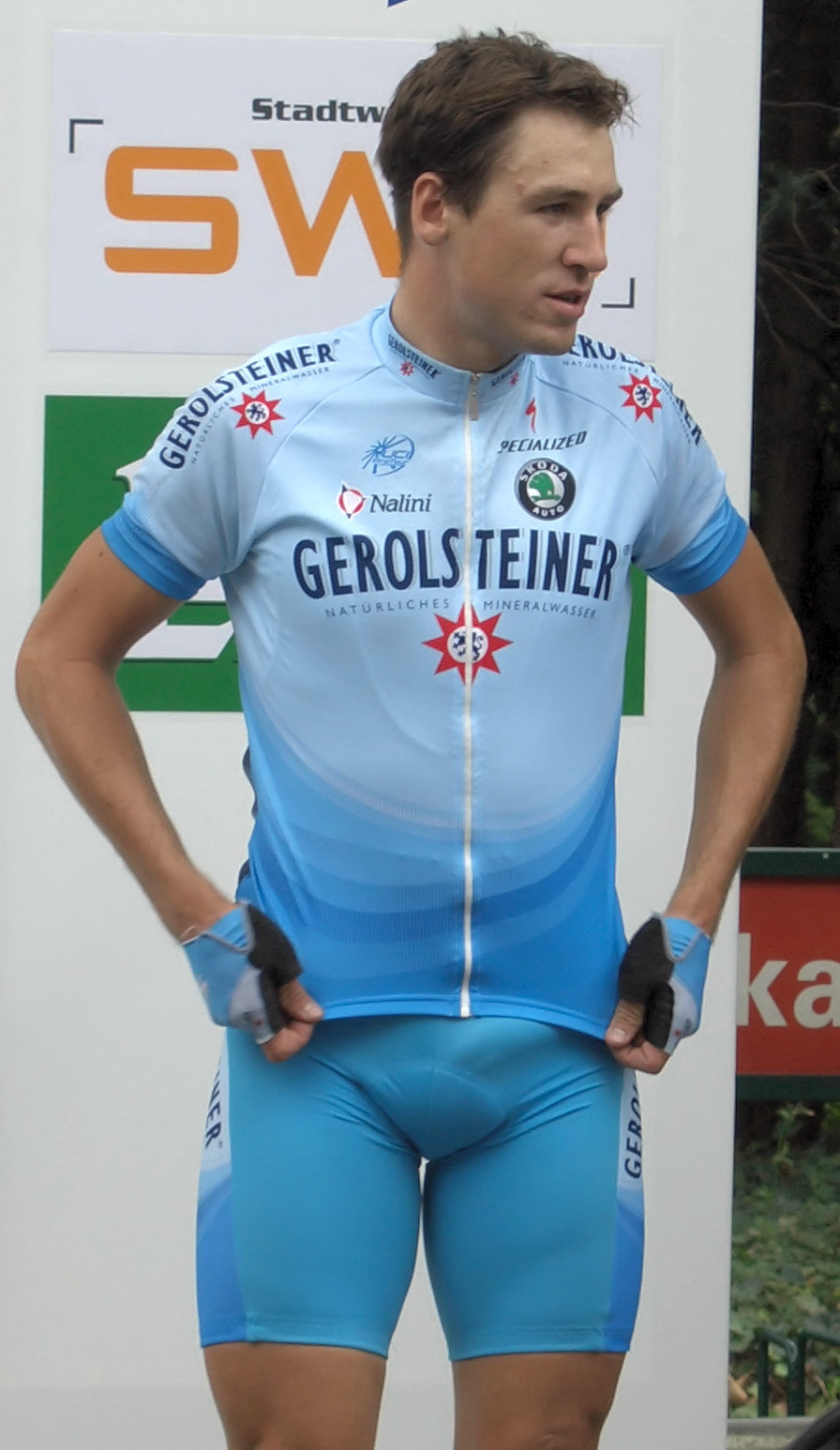 Sven Krauß at race in Germany